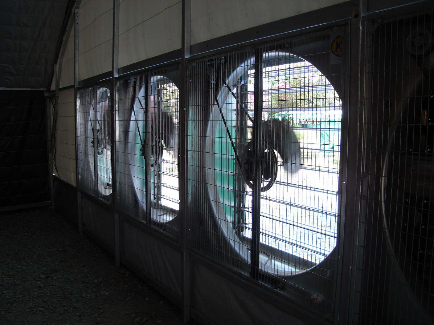 Big electric fans (Charoen Pokphand Group (CP)) -- Chiangmai, Thailand